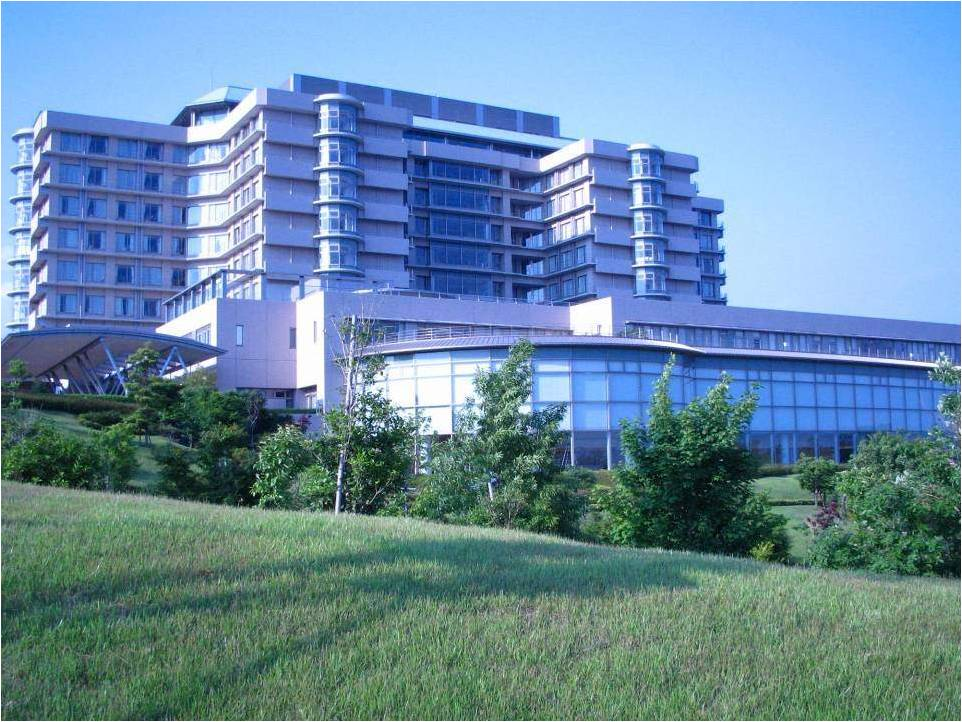 Lateral view of Shizuoka Cancer Hospital